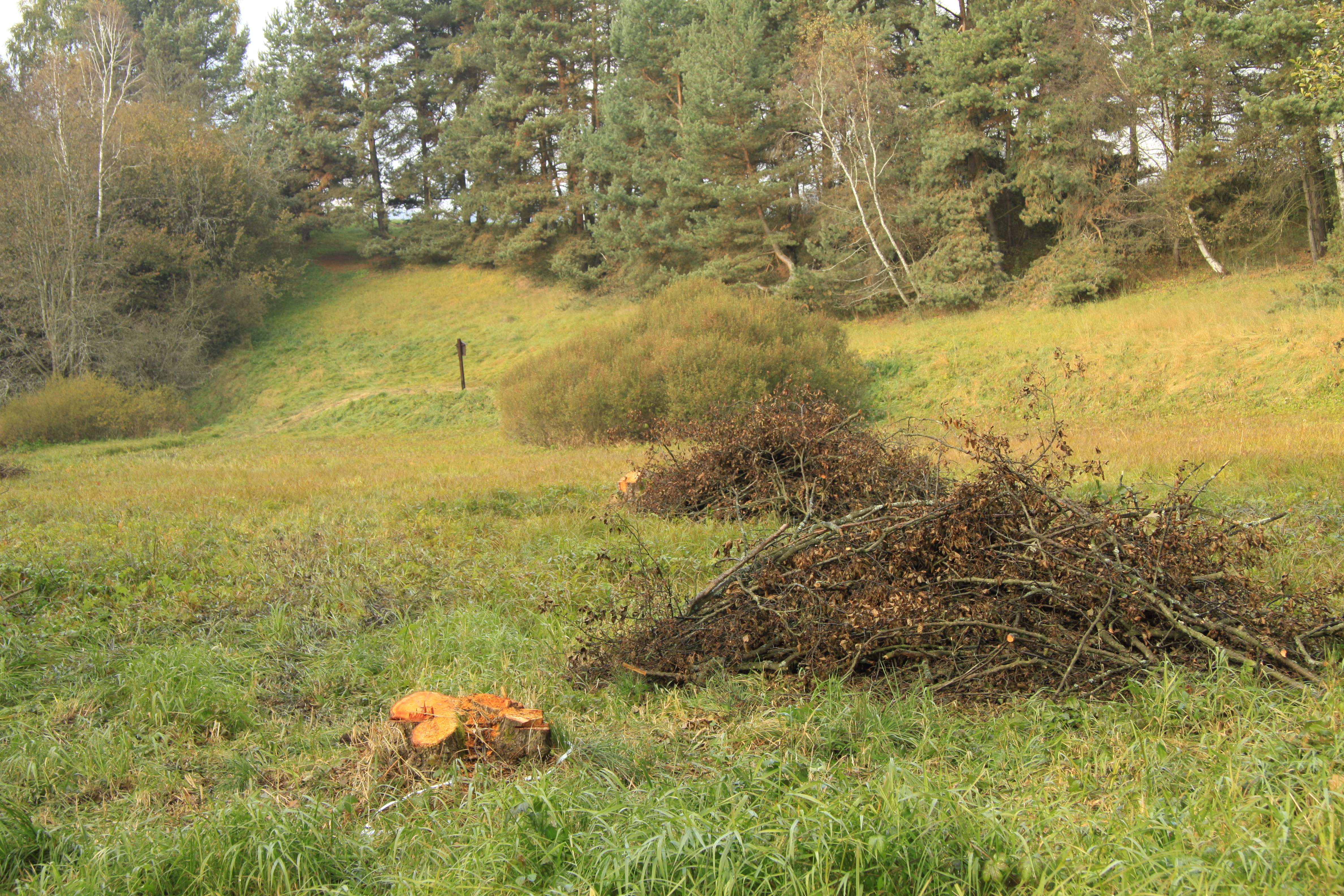 Nature reserve Dobročkovské hadce near Dobročkov village partly lying on the area of CHKO Blanský les, Prachatice District, Czech Republic Project: Chráněná území.